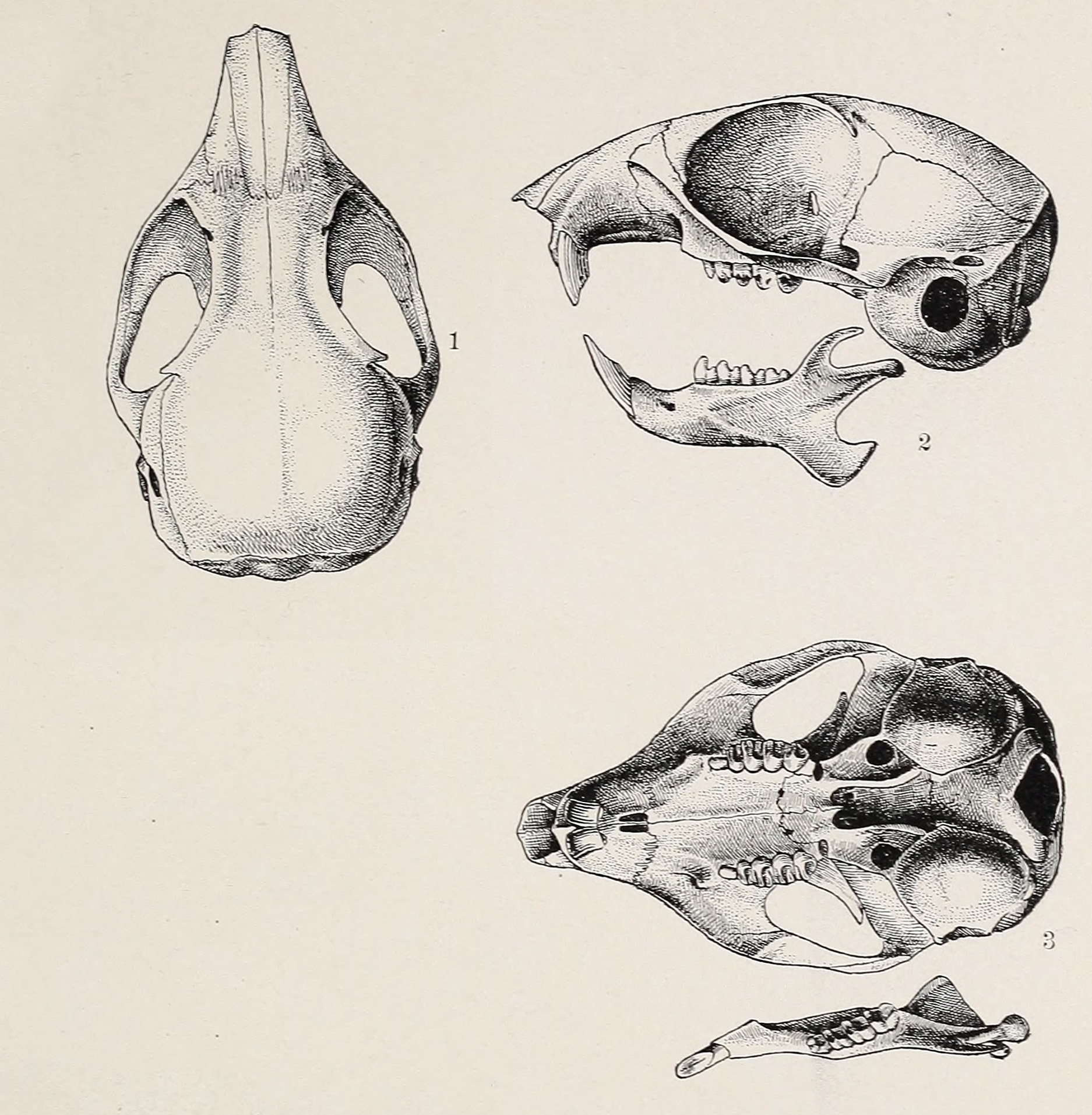 Skull of Spermophilus cryptospilotus, heute Xerospermophilus spilosoma cryptospilotus by Clinton Hart Merriam, 1870